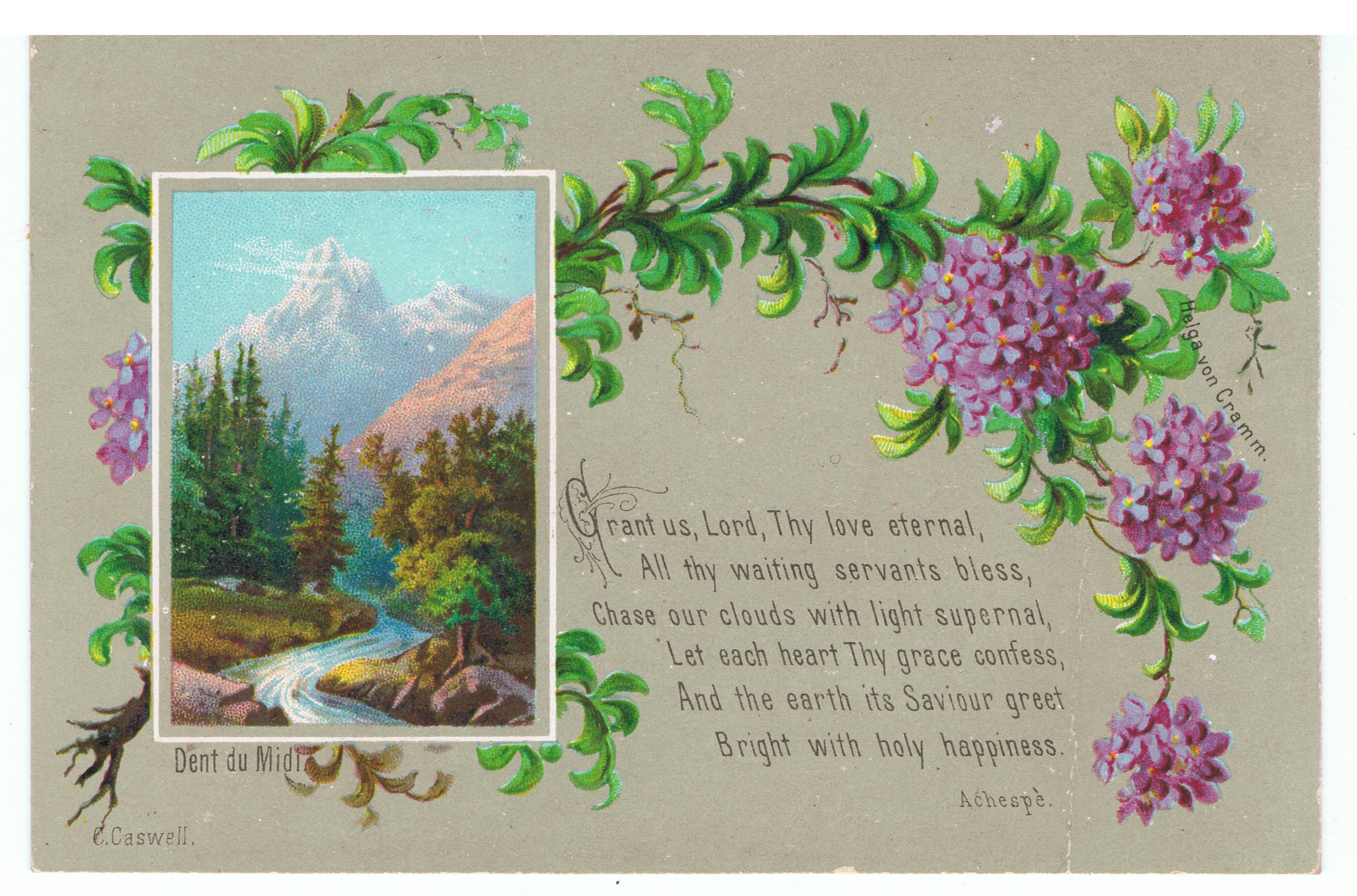 Scan (by me, R. de Salis, Rodolph (talk) 00:05, 21 January 2015 (UTC)) of the Dents du Midi or Dent du Midi, chromolithograph, by Helga von Cramm, with a prayer by Achespè. C. Caswell of Birmingham. (3 x 4.5 inches), c. 1880.